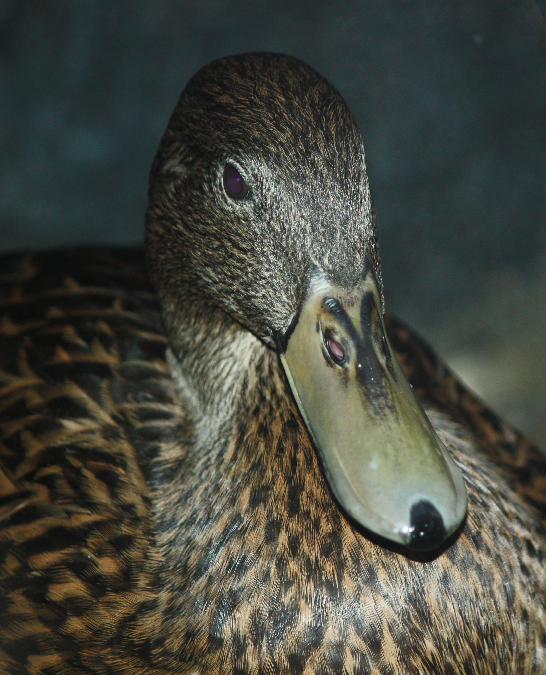 Meller's Duck Anas melleri at the Louisville Zoo